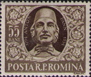 1955 Romanian Post, 55 bani, olive, representing Anton Pann; Series:Romanian Writers